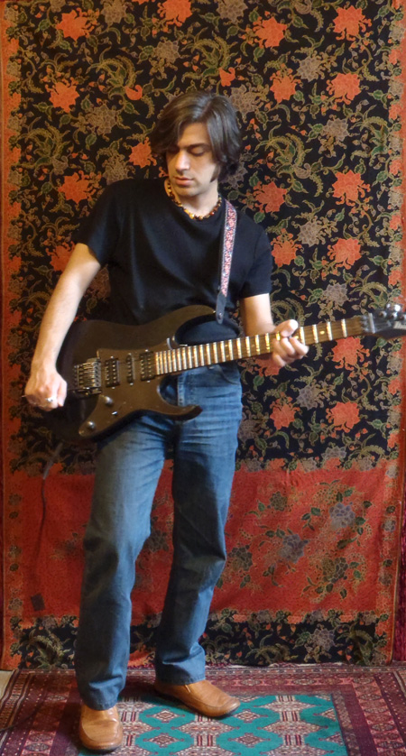 Salim Ghazi Saeedi playing guitar